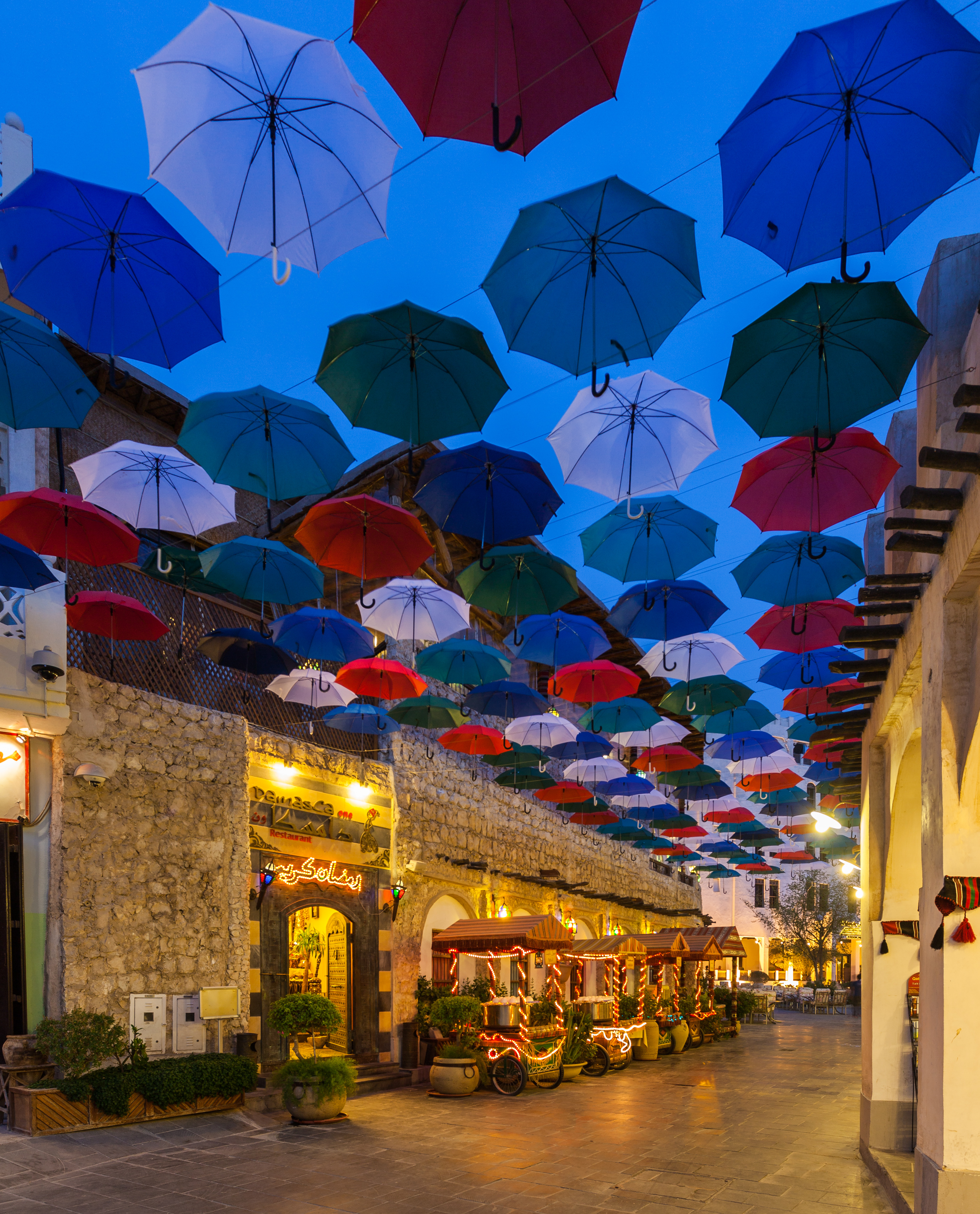 Souq Waqif, Doha, Qatar